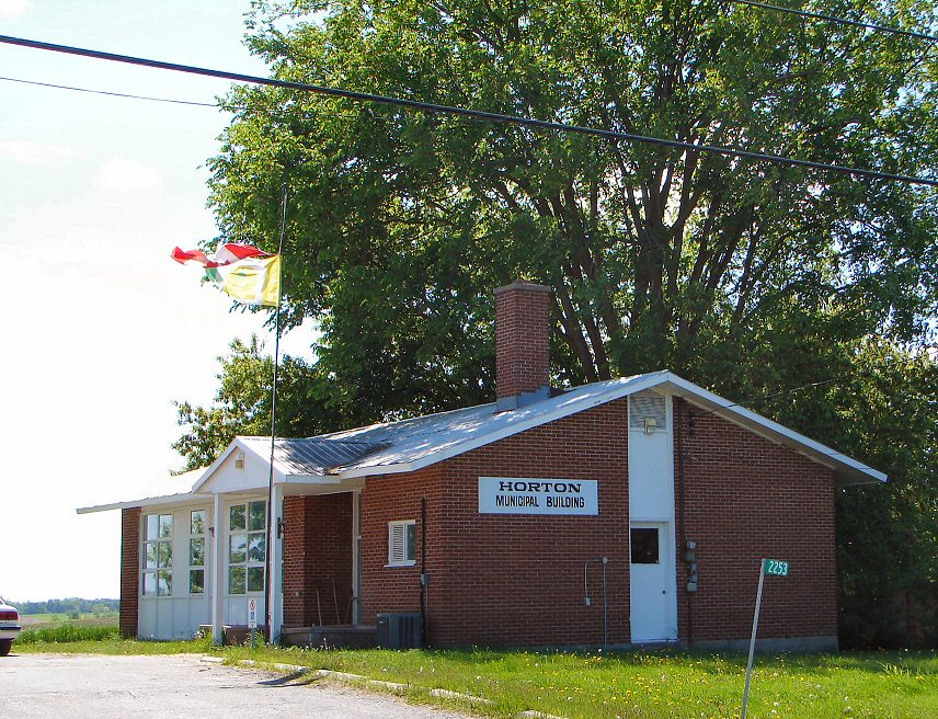 Municipal buildings of Horton, Renfrew County, Ontario, Canada